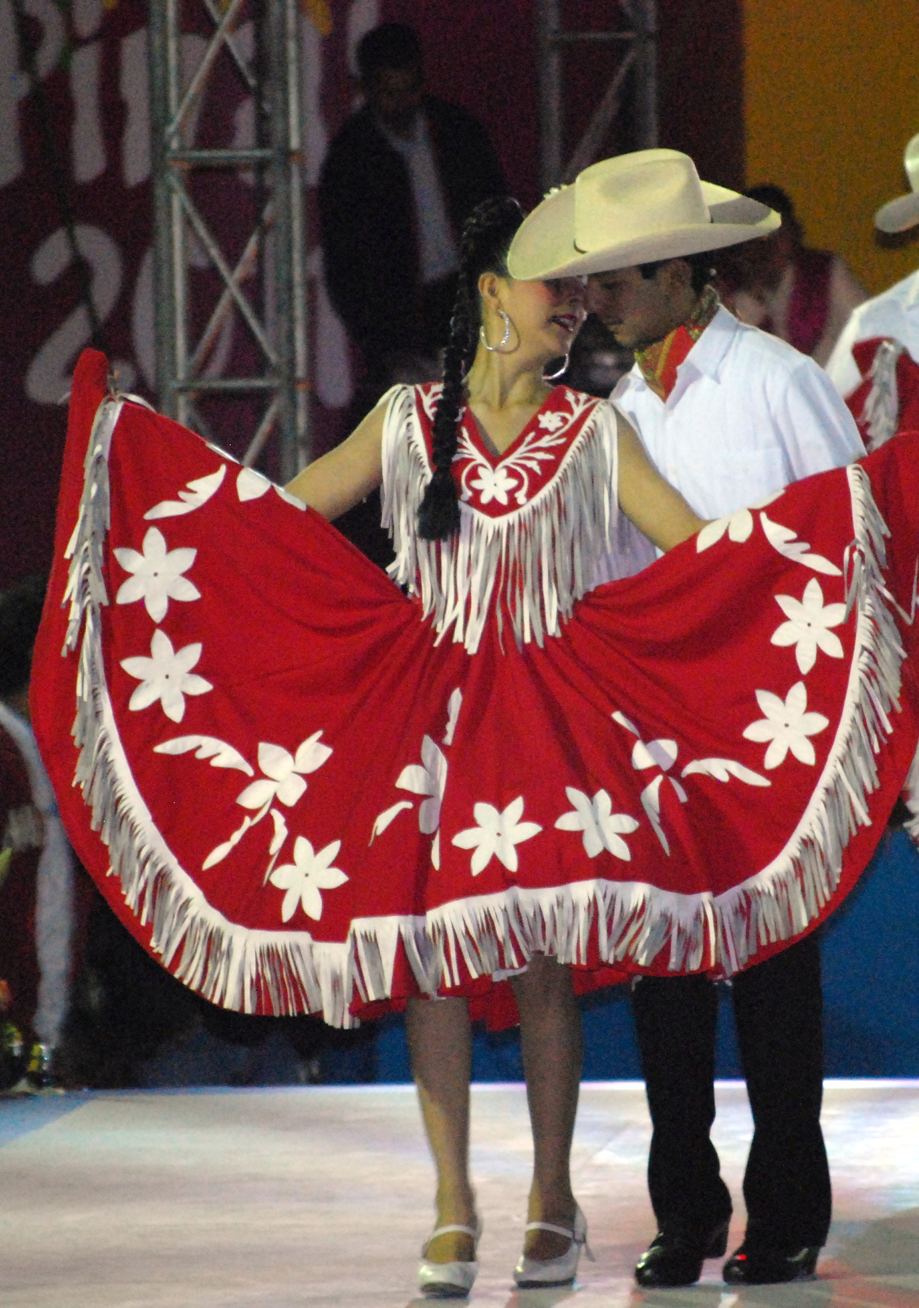 Dancers at the 2011 Concurso Nacional de Baile Huapango in Pinal de Amoles, Querétaro, Mexico